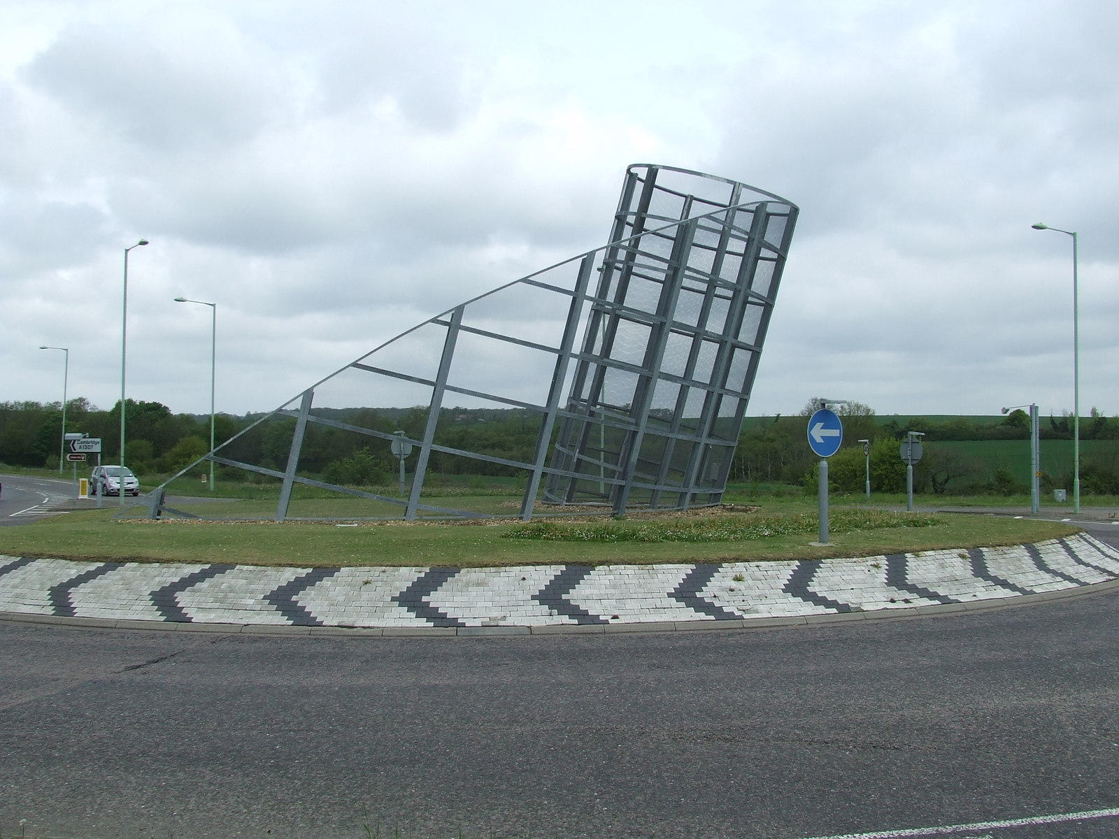 The Spirit Of Enterprise